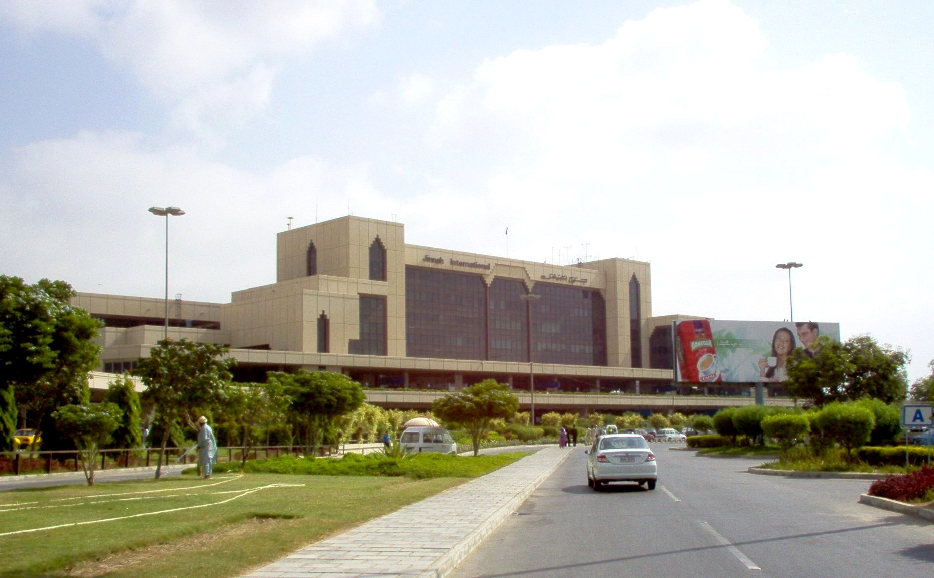 The Jinnah Terminal of the Karachi International Airport, Karachi, Pakistan